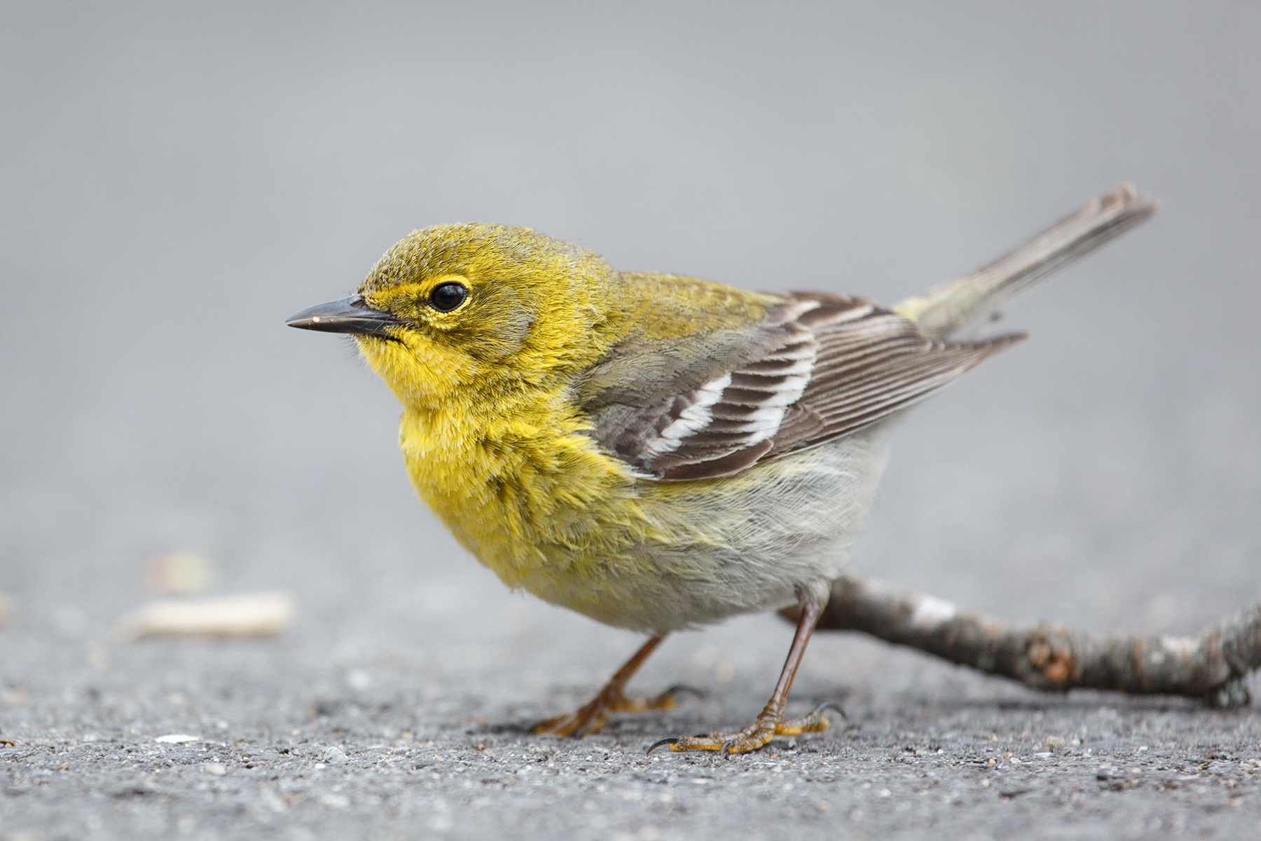 Pine Warbler